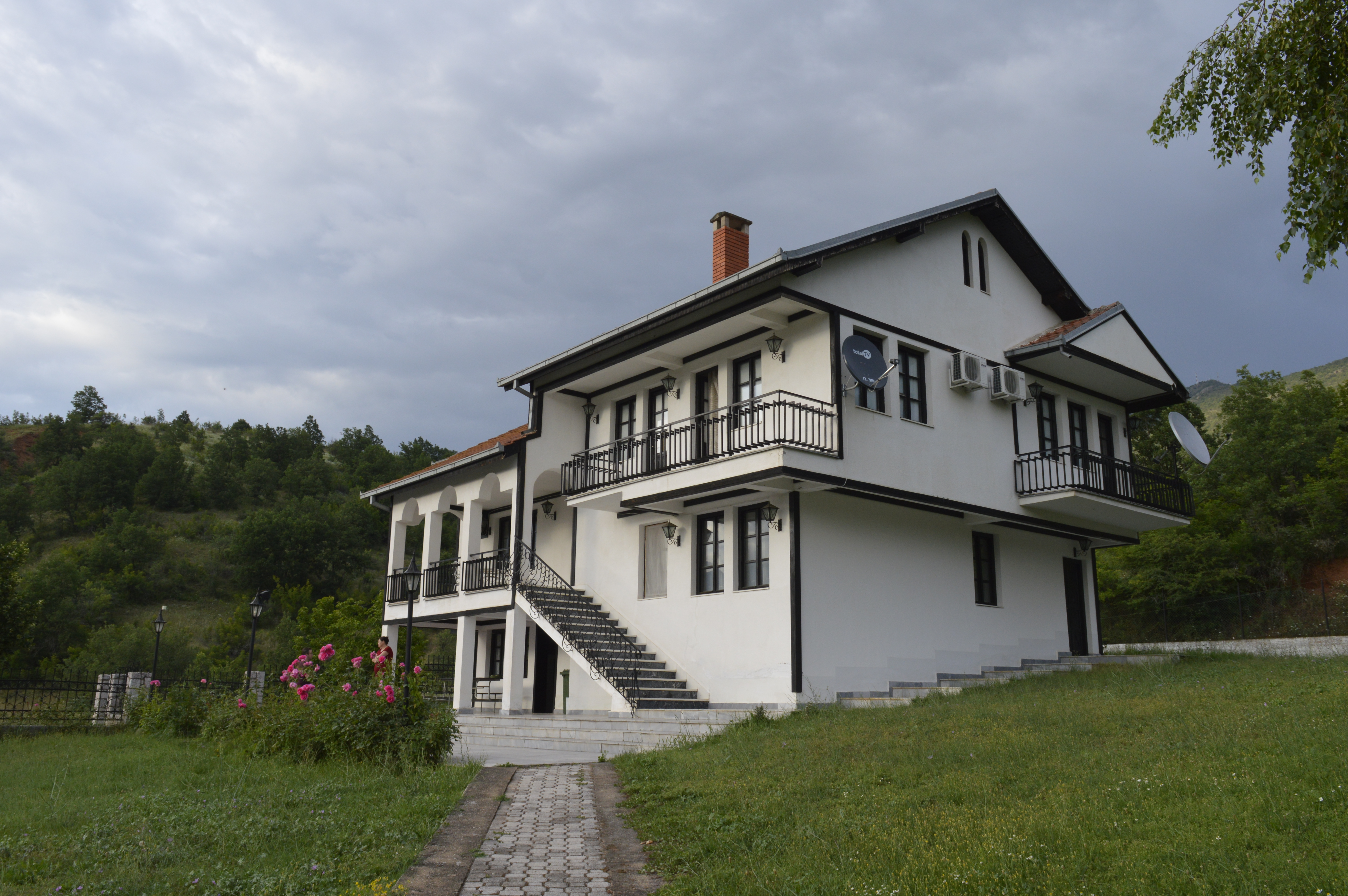 Hospices of the Teovo Monastery